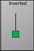 תבנית איש תלוי עלייה